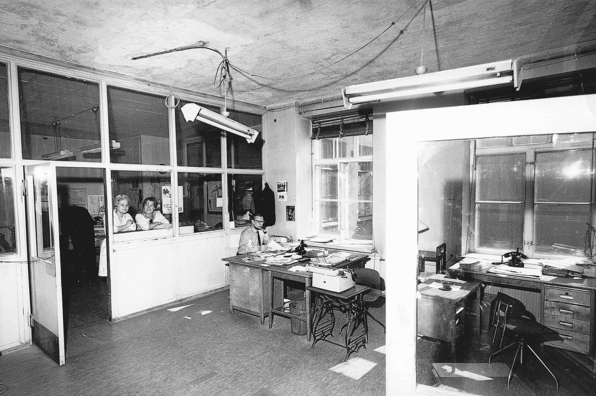 Photograph of part of the editing office (newsroom) of Helsingin Sanomat newspaper.